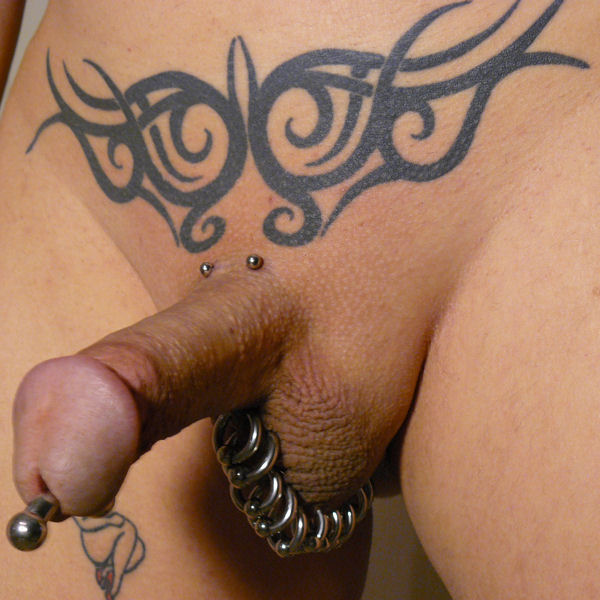 male genital piercings, pubic piercing, Prince Albert piercing, scrotal piercing, scrotal ladder